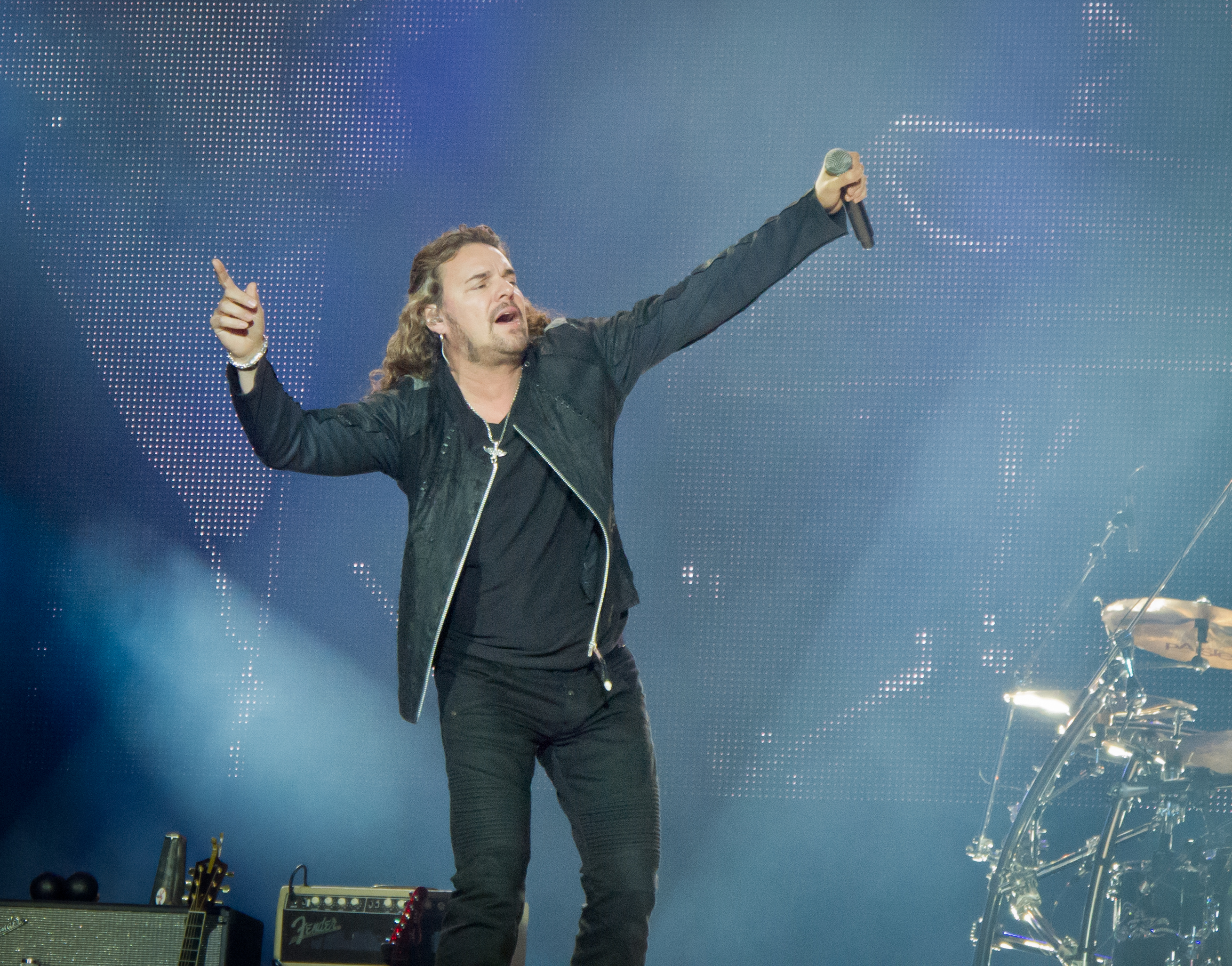 Maná in concert in Rock in Rio in Madrid in 2012.